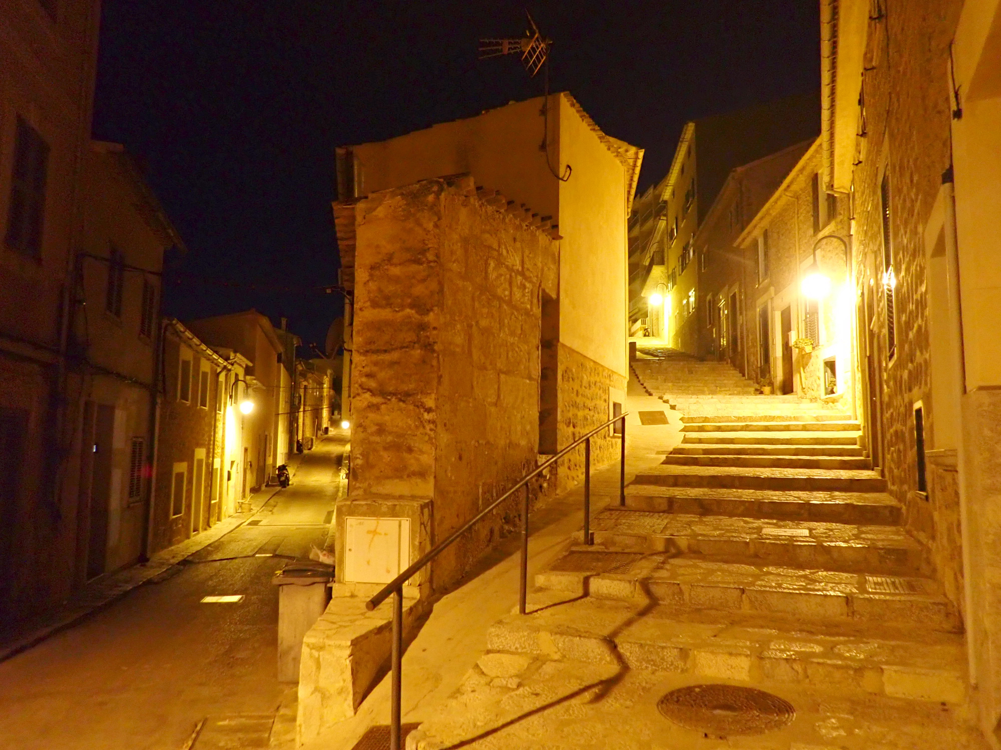 Old Street junktion in Port de Sóller, Mallorca, Spain, 2020